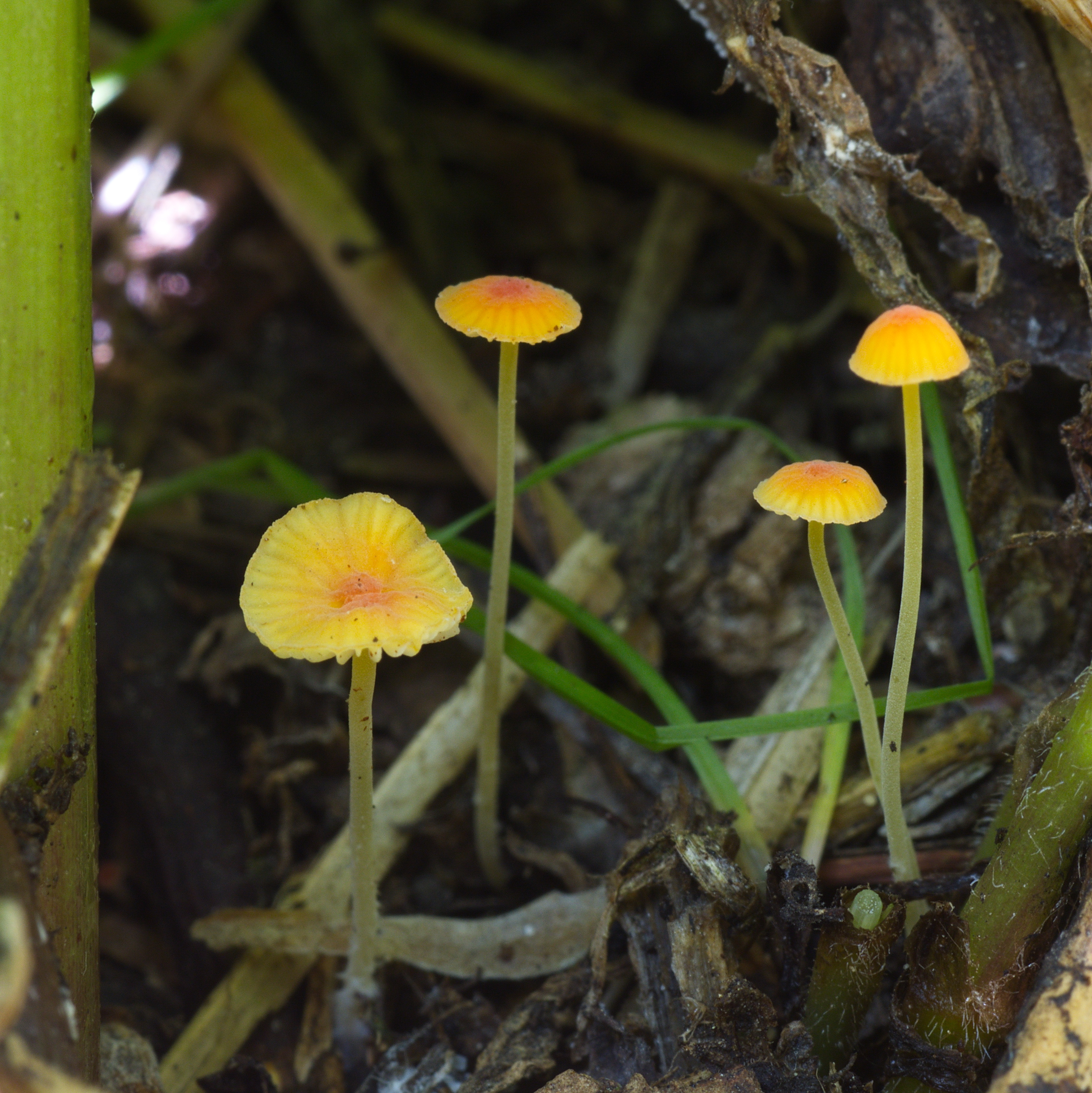 Another "sub-Urtican" discovery. These were about 2 cm tall.